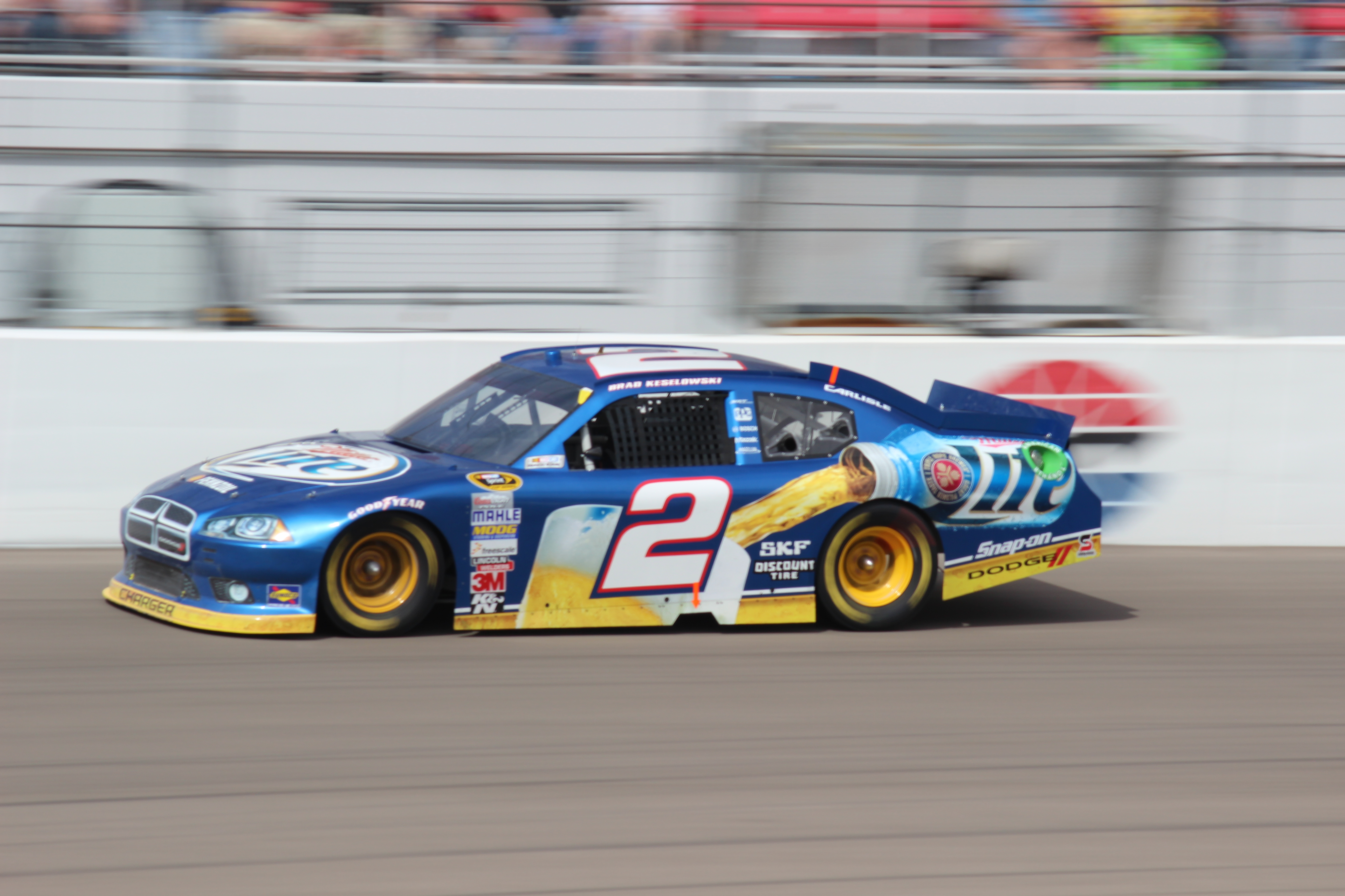 NASCAR driver Brad Keselowski participates during the 2012 Kobalt Tools 400 at Las Vegas Motor Speedway.